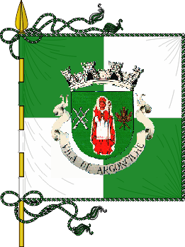 Flag of Argoncilhe